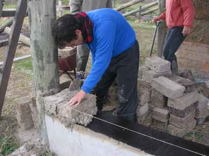 Levantando un muro de adobes sobre una viga de cimentación